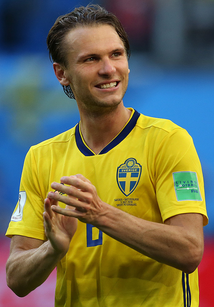 Swedish footballer Albin Ekdal on 3 July 2018, after the 2018 FIFA World Cup Round of 16 match between Sweden and Switzerland.